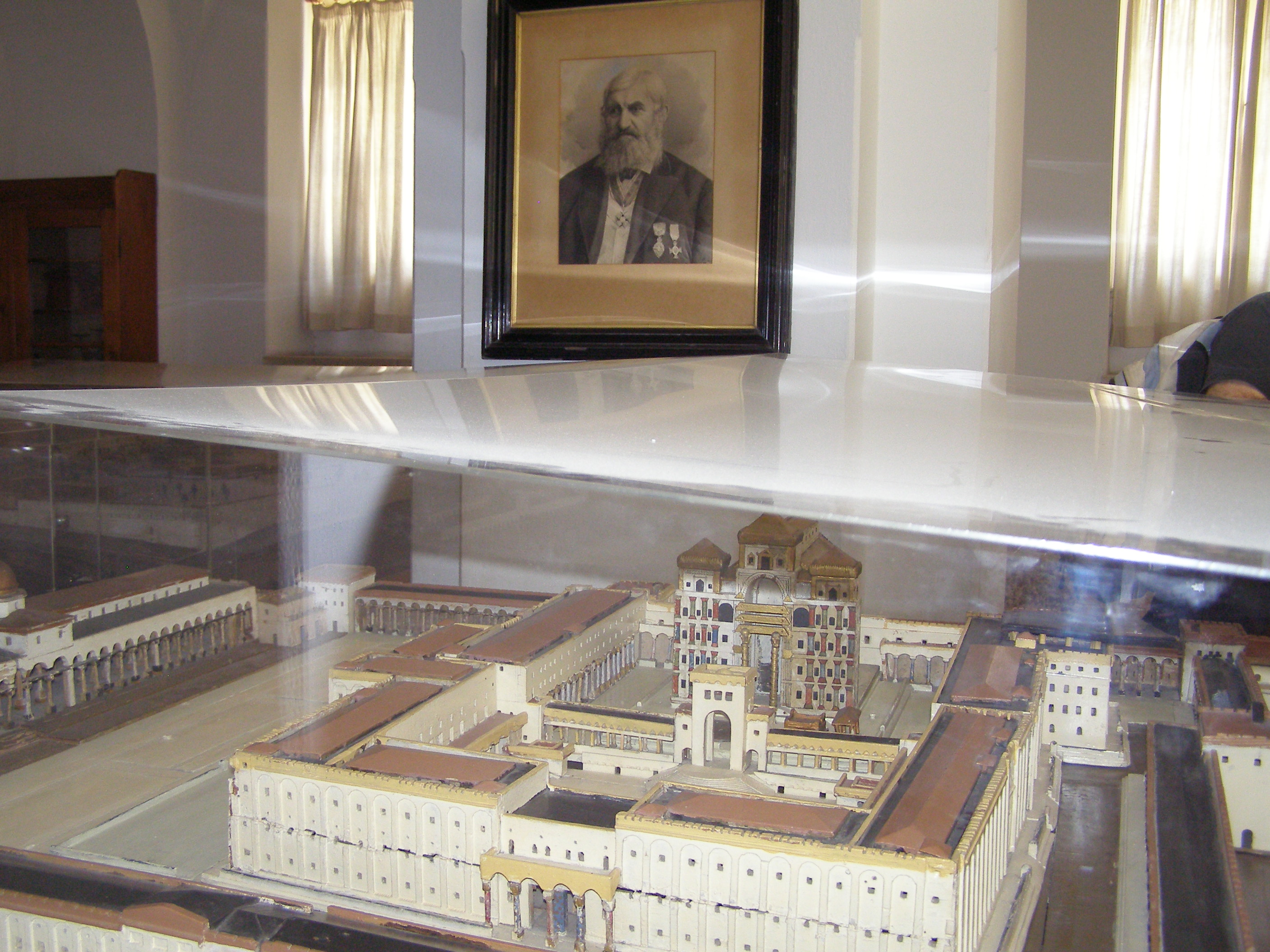 Conrad schik